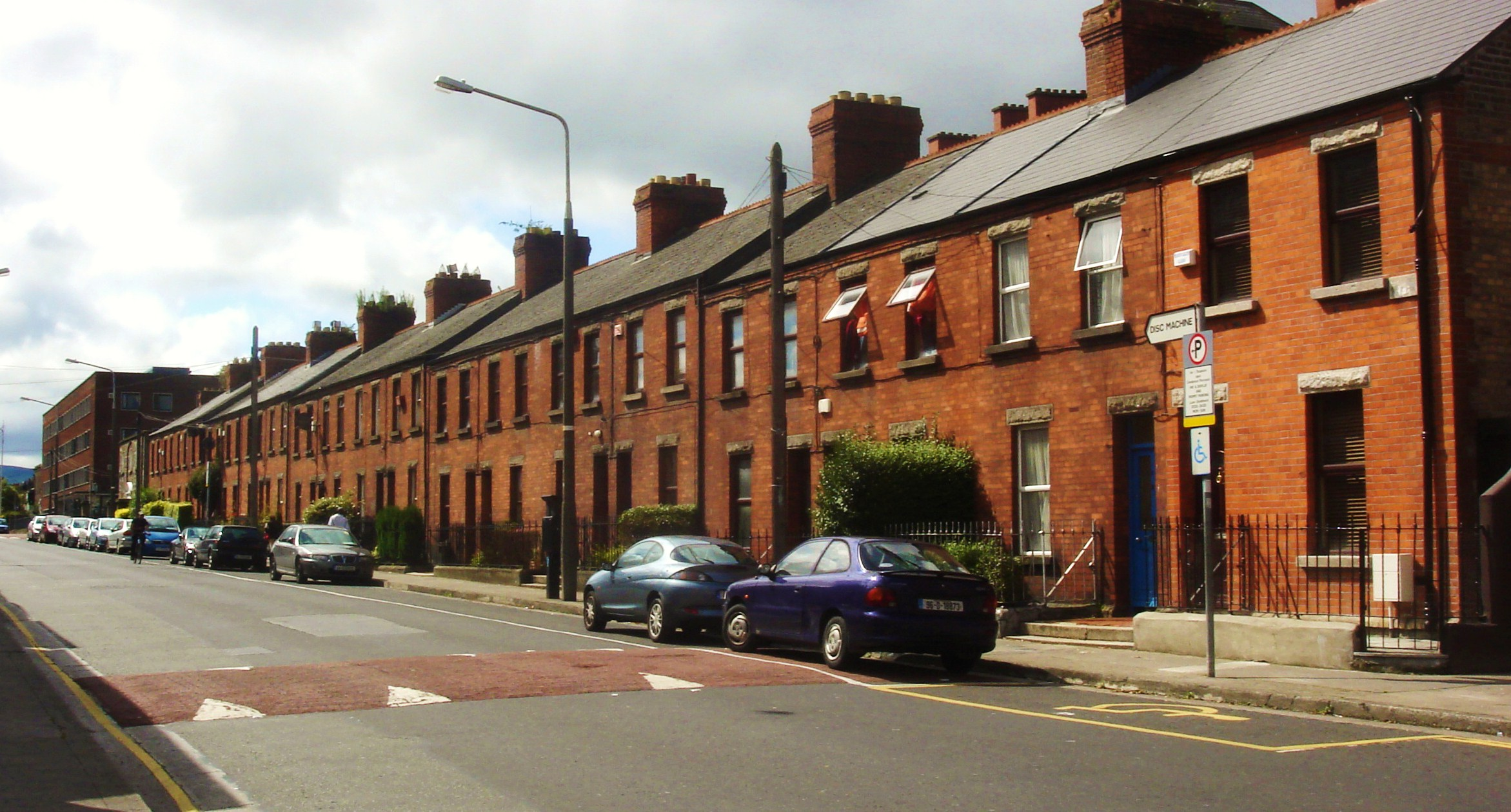 St Kevin's terrace, New Bride Street, Dublin, Ireland